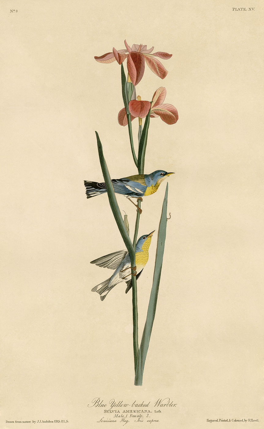 Plate 15 of Birds of America by John James Audubon depicting Blue Yellow-backed Warbler.